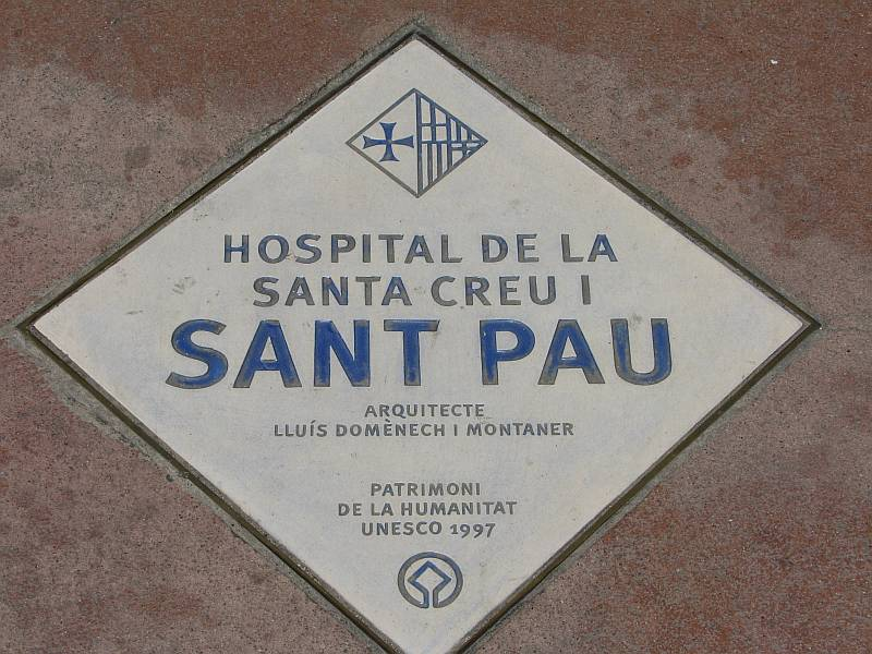 Hospital de la santa creu i sant pau, Barcelona, Spain